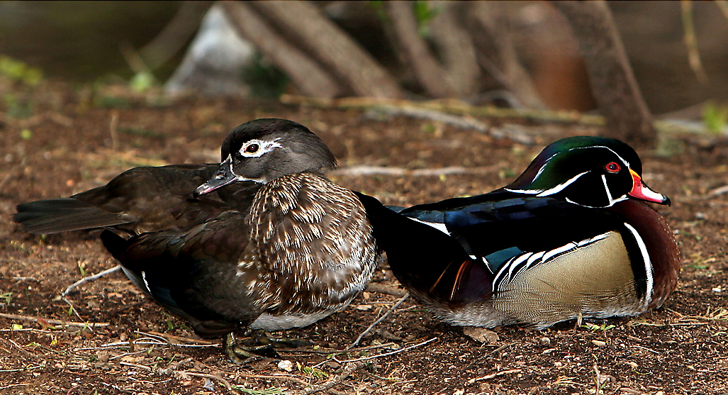 Pair of Wood Ducks